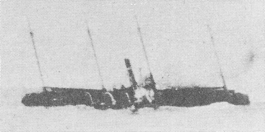 Sinking of "S.S. Cynthia Olson". This ship was sunk by shelling Japanese submarine I-26 Japanese submarine on the same day as the Attack on Pearl Harbor. This photograph is a photograph taken by valuable Saburo Hayashi crew Japanese submarine I-26.